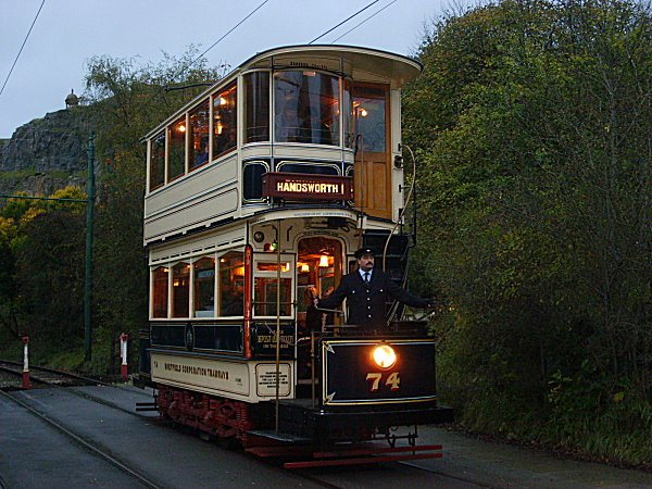 Sheffield Tramway tramcar 74 at the National Tramway Museum, Crich.